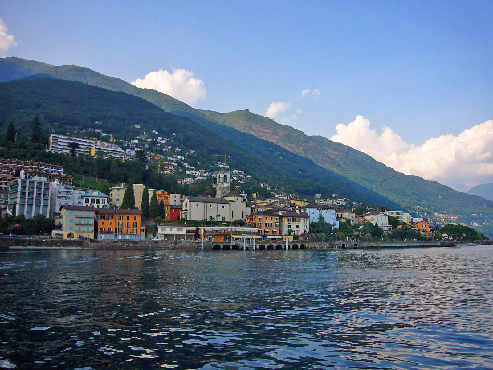 View of Brissago from Lake Maggiore. In Ticino, Switzerland but near the Italian border